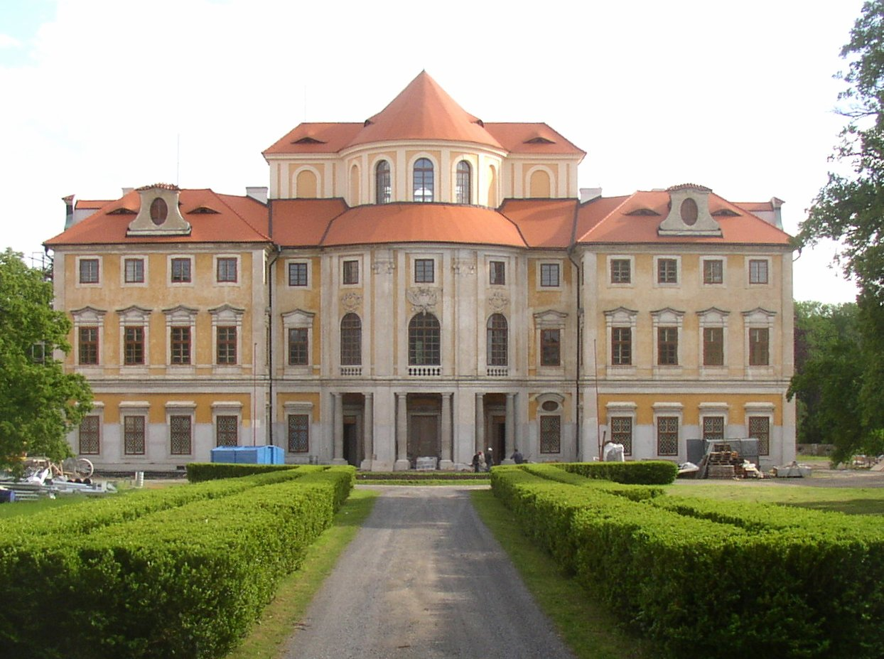 Baroque chateau (1699-1706) by Giovanni Battista Alliprandi in Liblice near Mělník, Czech Republic. Česky: Barokní zámek Liblice u Mělníka (1699-1706) od Giovanniho Battisty Alliprandiho.